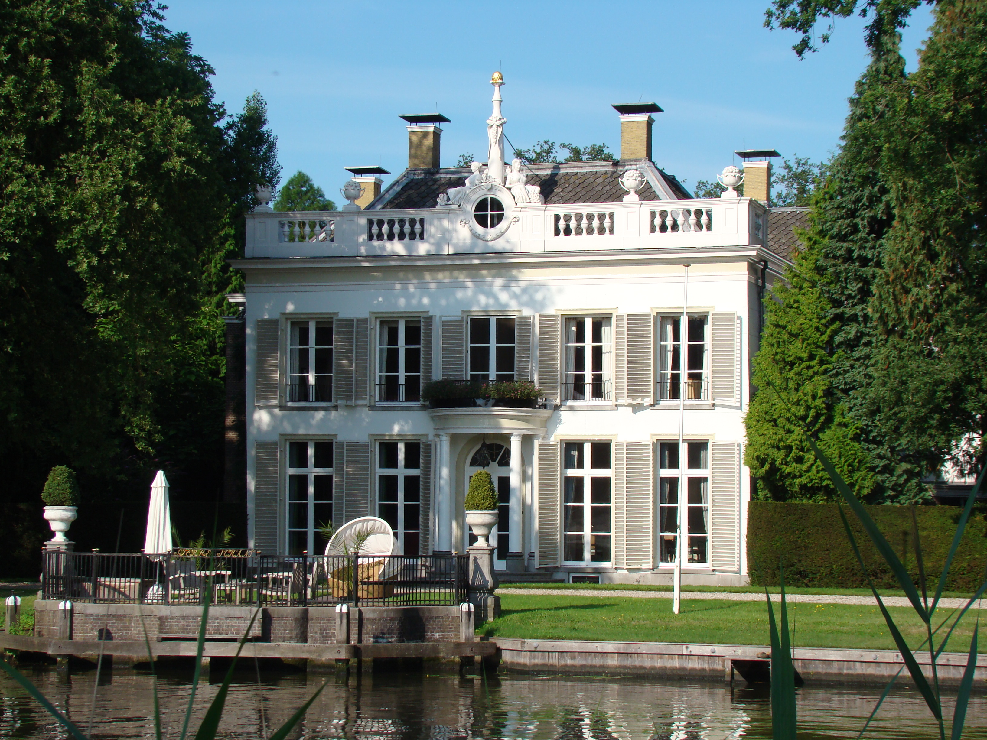 Monumental buildings in Nieuwersluis, Netherlands